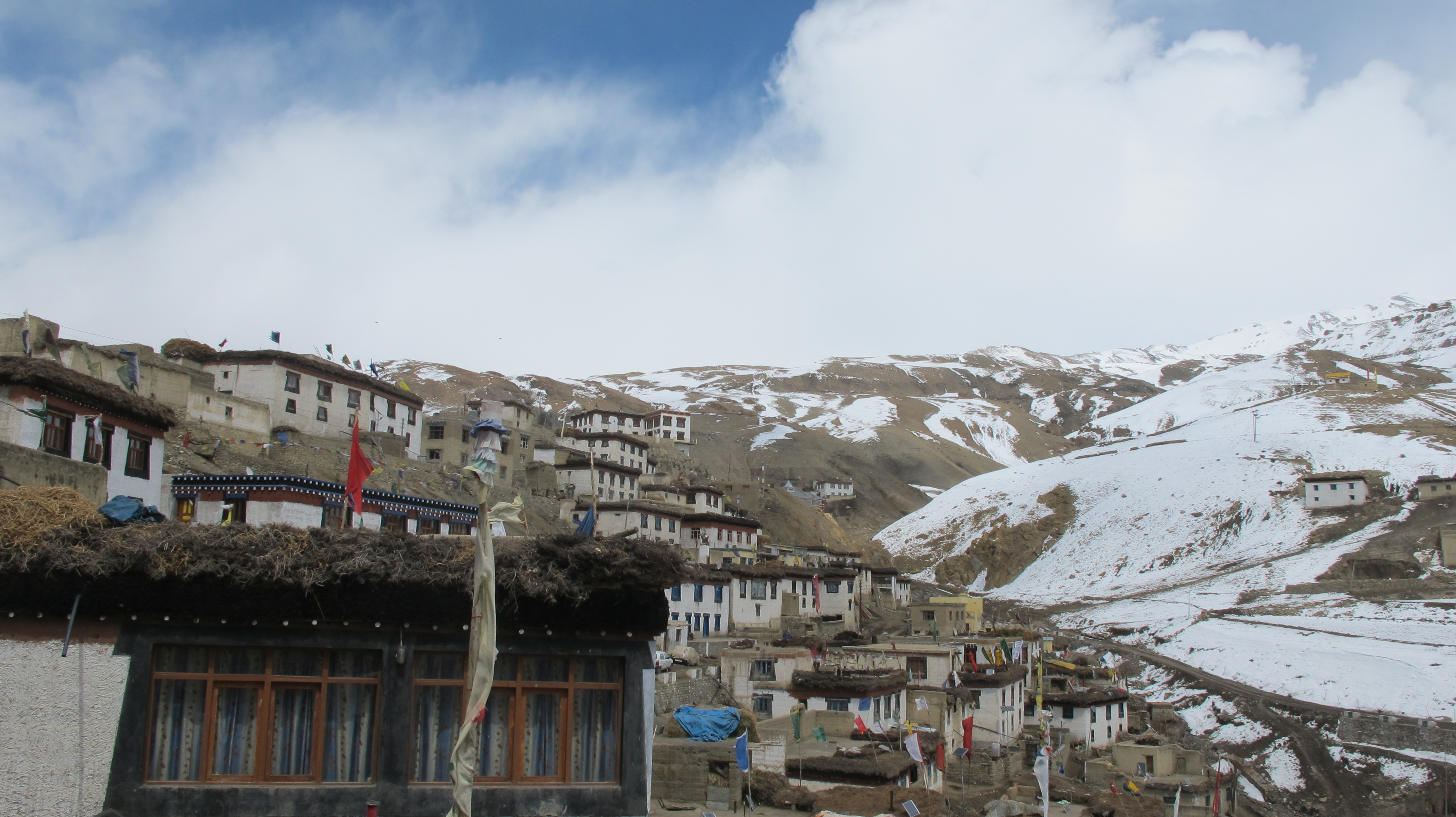 Houses in Kibber Village